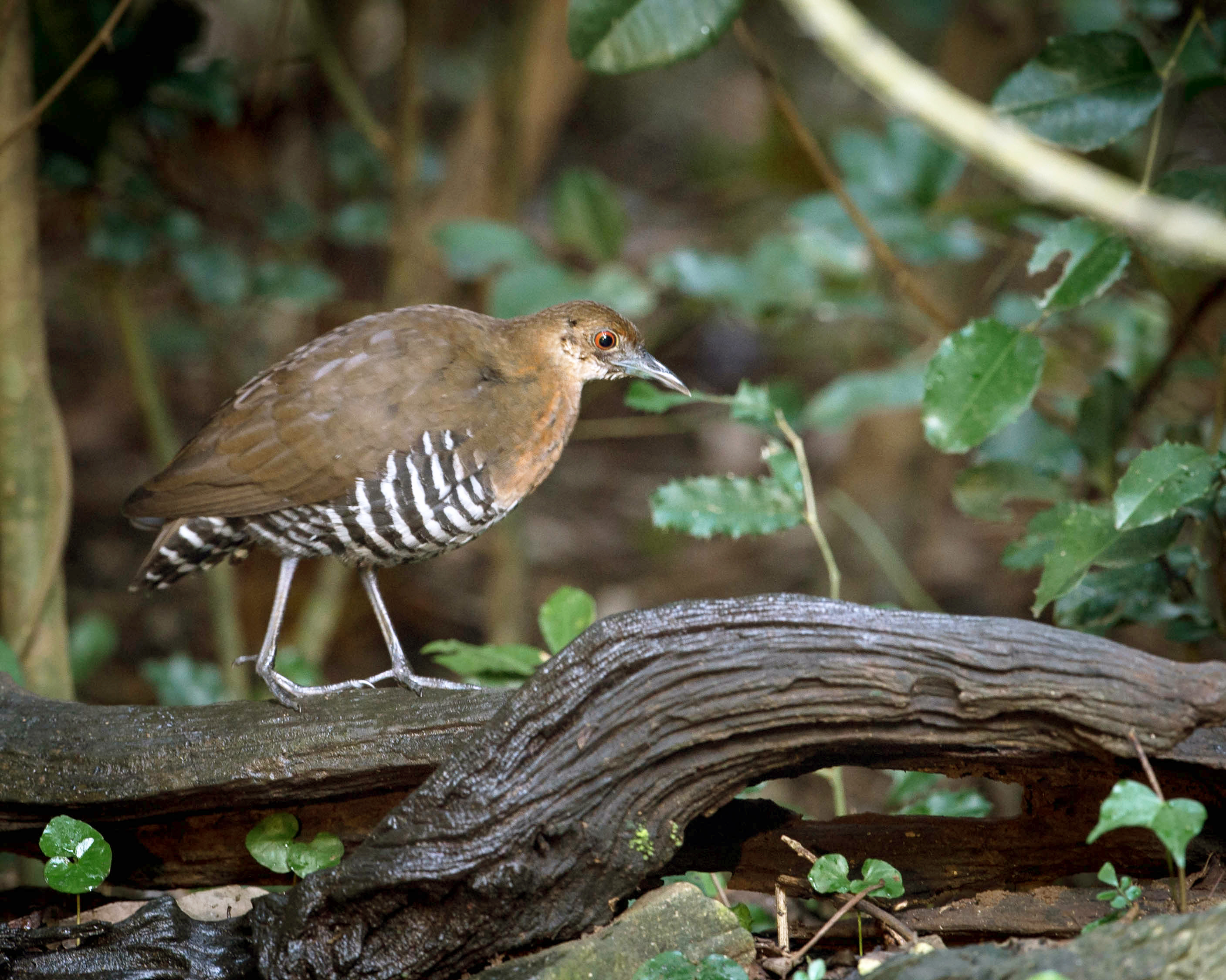 29th Nov 2013 - Baan Song Nok, Phetchaburi, Thailand.